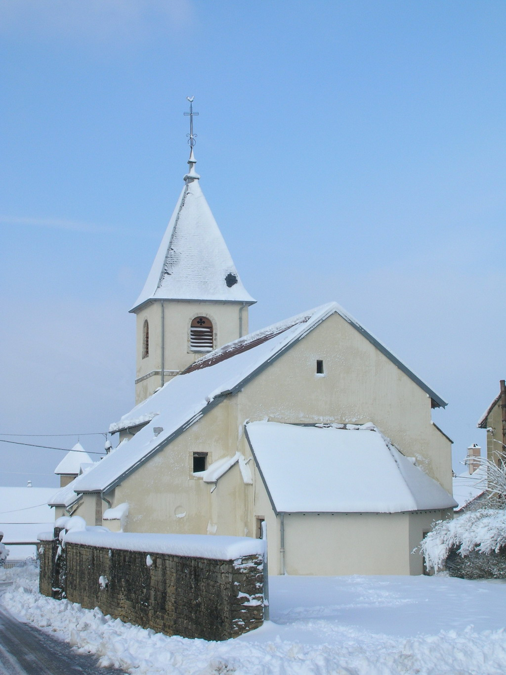 Church of Burgille, Doubs, France